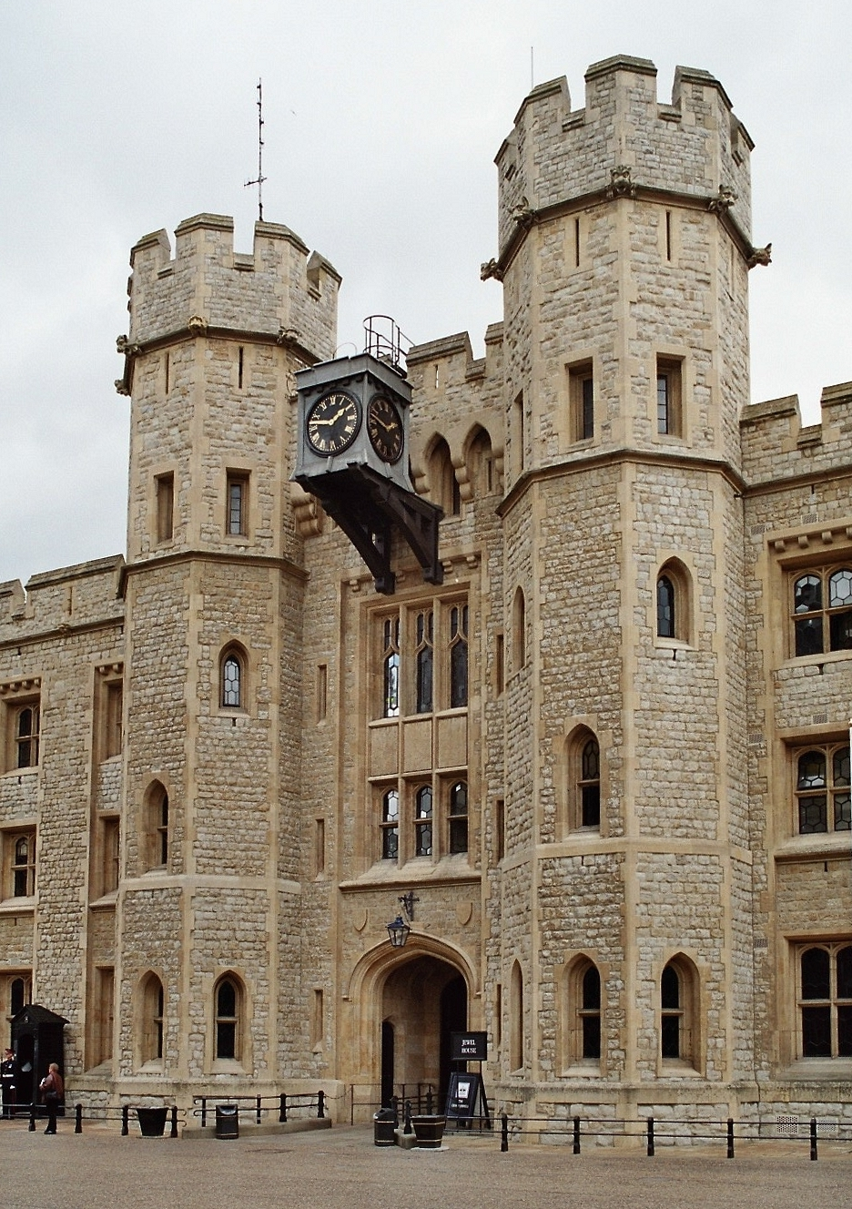 UK, Tower of London: entrance The Jewel House